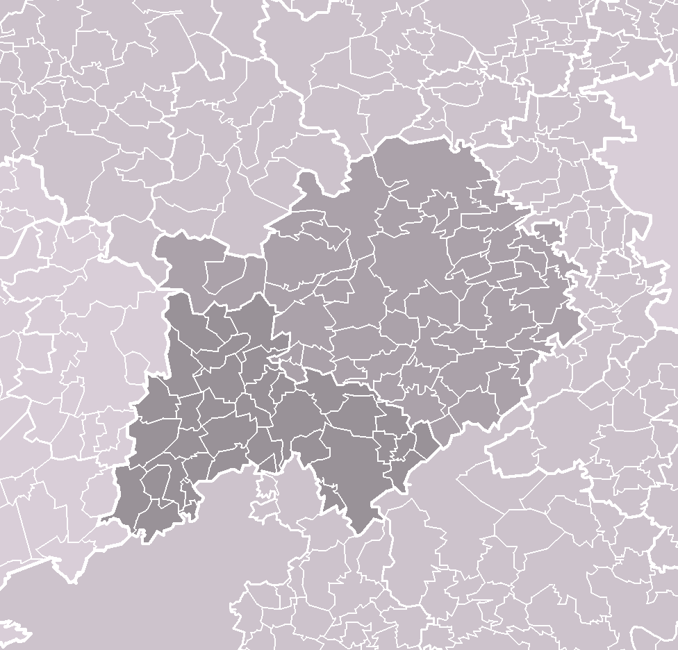 Location of administrative area of Hořovice as a Municipality with Extended Competence within Beroun District. Darker grey in SW half of the district represents MEC area of Hořovice, lighter grey in NE half represents MEC area of Beroun. White lines of variable thickness show boundaries of municipalities, administrative areas, districts and regions.